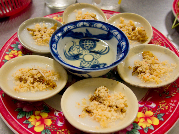 Glutinous rice, meat, ground peanuts, fish sauce